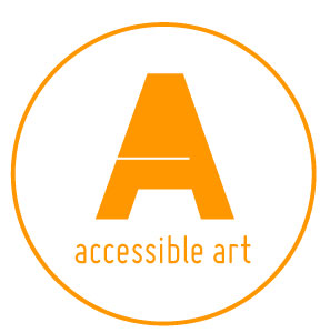 Accessible Art logo. Created in 2014